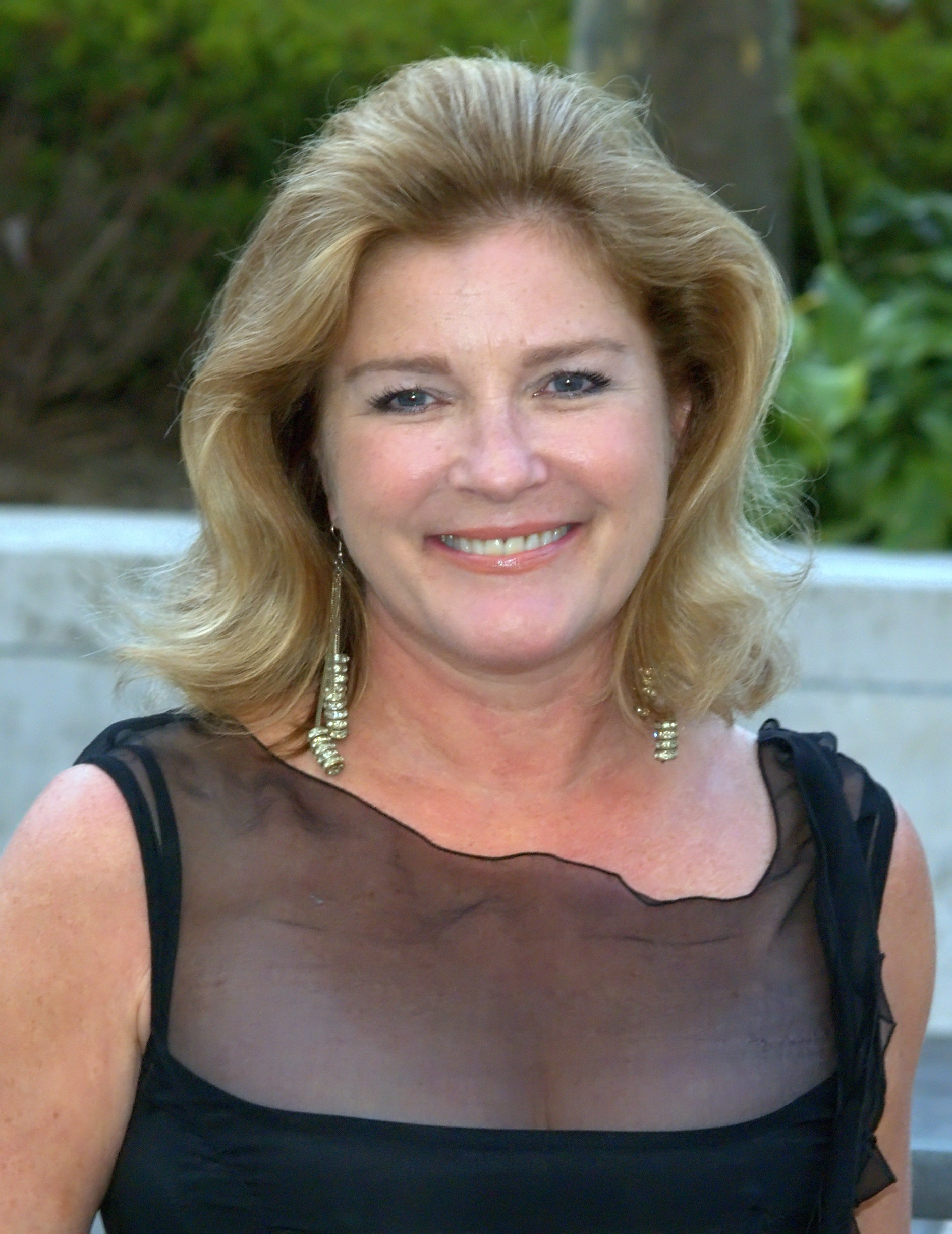 Kate Mulgrew at the 2009 premiere of the Metropolitan Opera in New York City. Photographer's blog post about event and photograph.